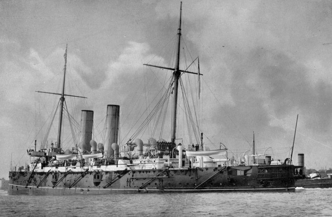 British cruiser HMS Gibraltar (1892).